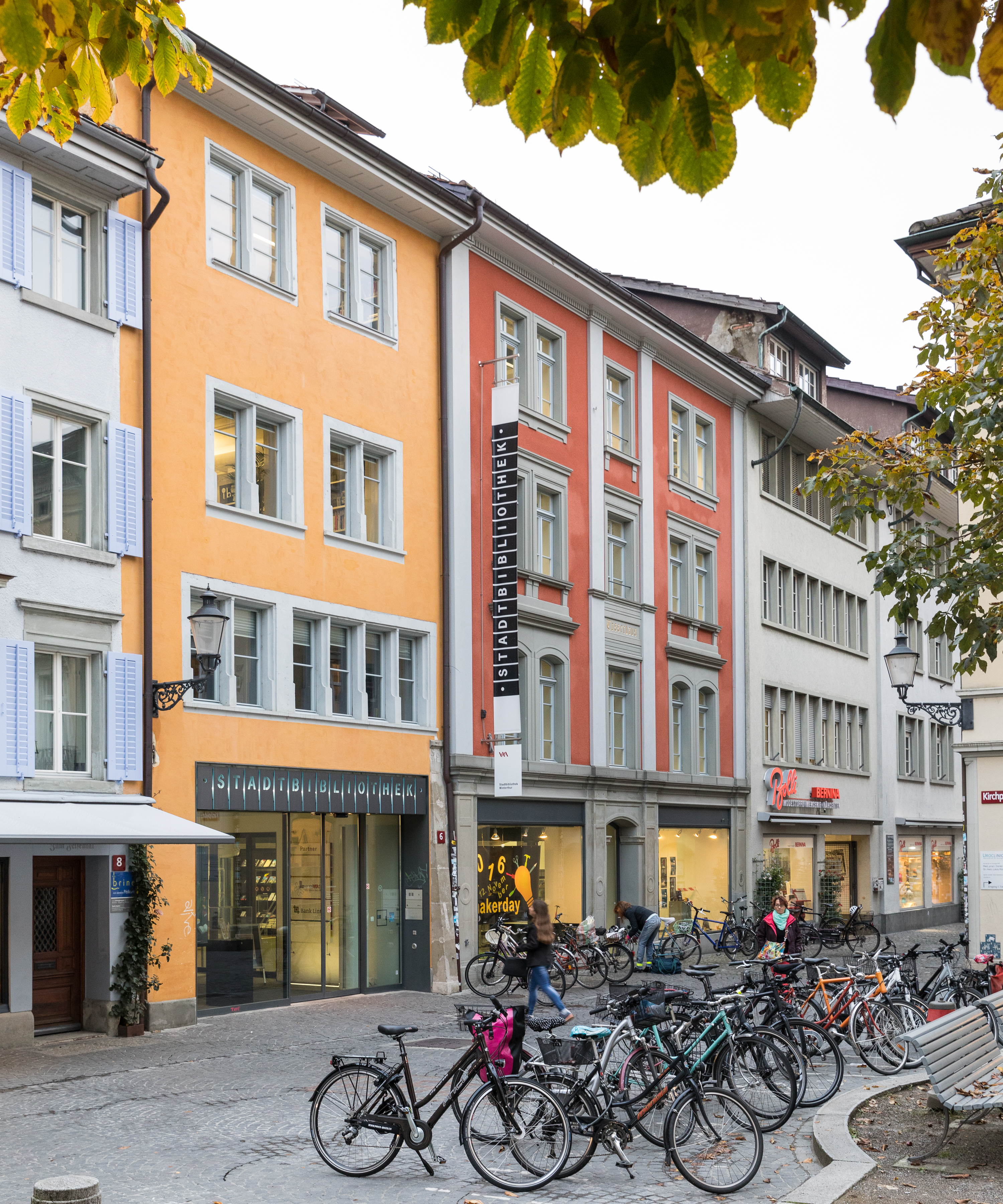 Public library in Winterthur